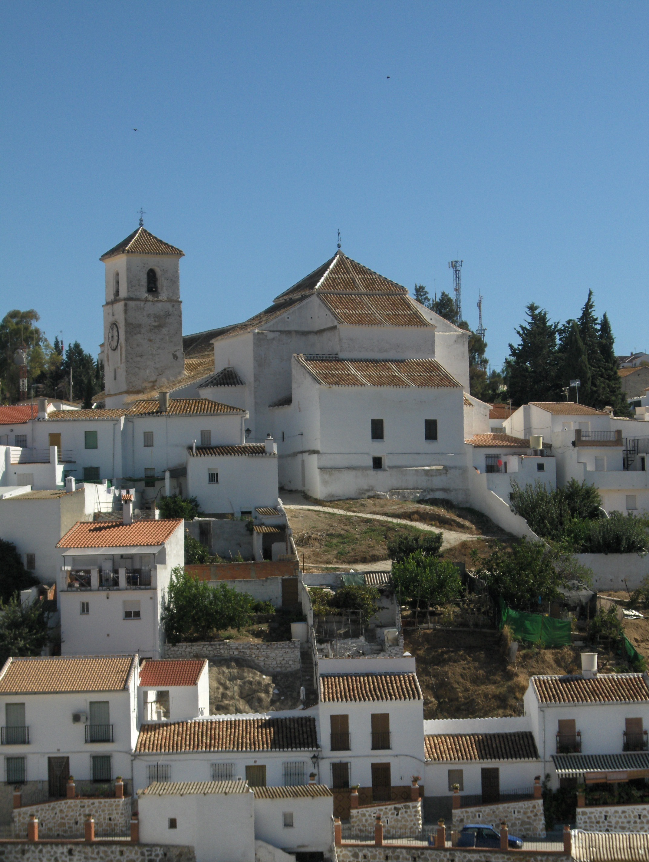 Iglesia de la Asunción, Colmenar, Spain.